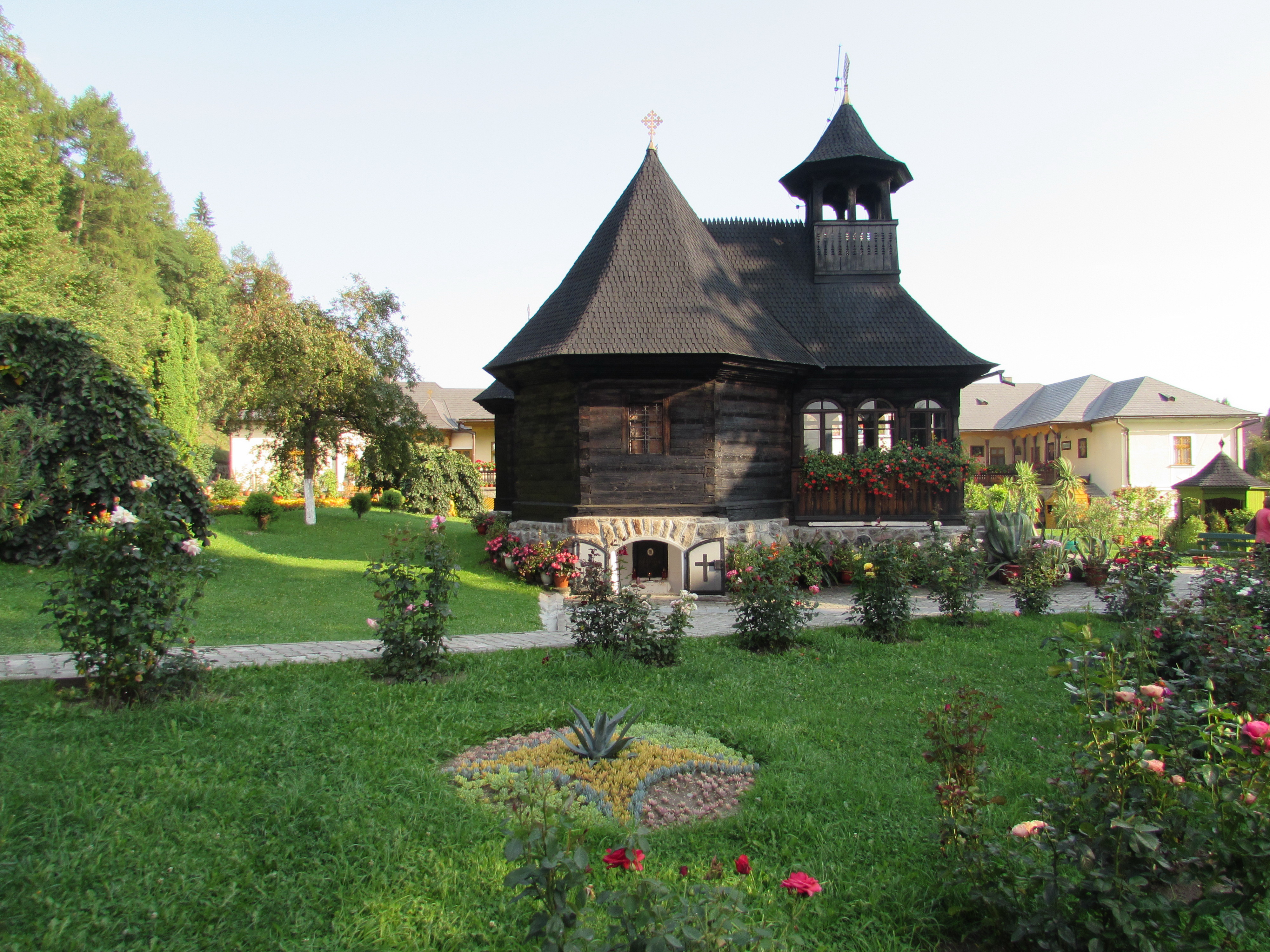 Toplița Monastery, Harghita County, Romania - The Wooden Church, built in 1847